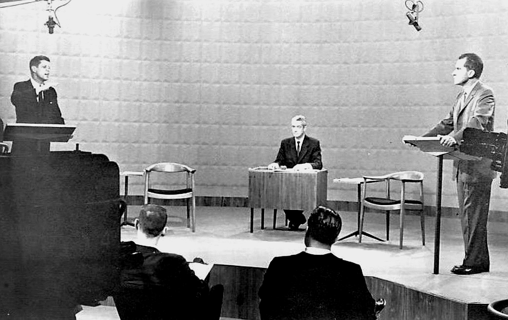 Photo of the first presidential debate in 1960. This was held in Chicago at CBS' WBBM-TV on September 26, 1960. Original caption: "(CX4) CHICAGO, Sept. 27--AS PRESIDENTIAL CANDIDATES DEBATED--Democrat Sen. John Kennedy, left, and Republican Richard Nixon stand at lecterns last night as they debated campaign issues at a Chicago television studio. Panelists are seated in foreground and moderator Howard K. Smith is at desk incenter. (AP Wirephoto)(See AP wire story)(rj30600stf)1960"